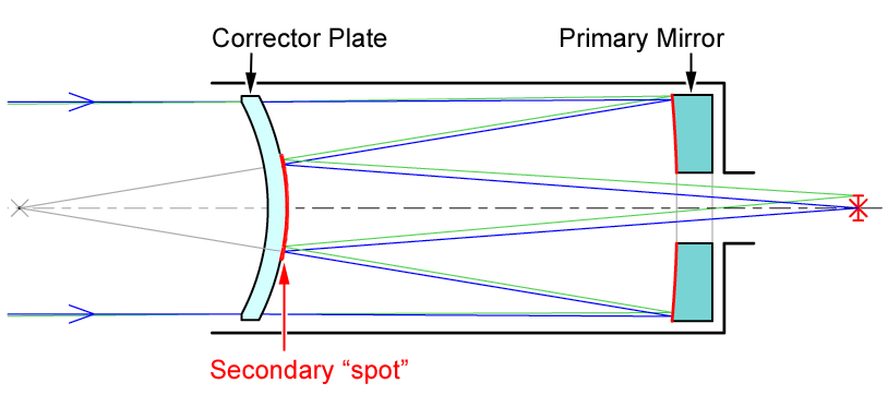 Diagram of a typical "Spot" Maksutov-cassegrain. Modified from GNU Licensed image Image:Maksutov telescope.png.